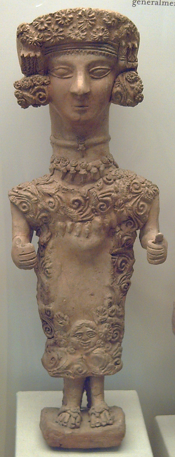 Carthaginian female figure.